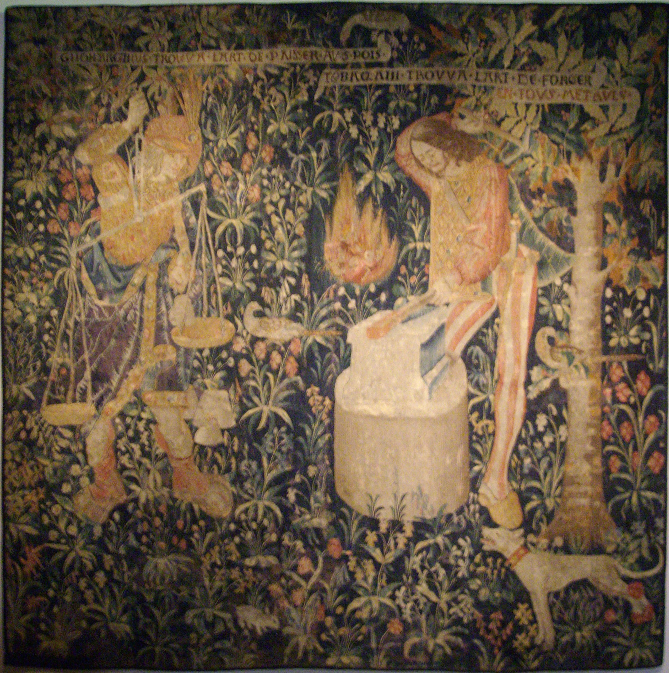 Giohargius and Tubalcain